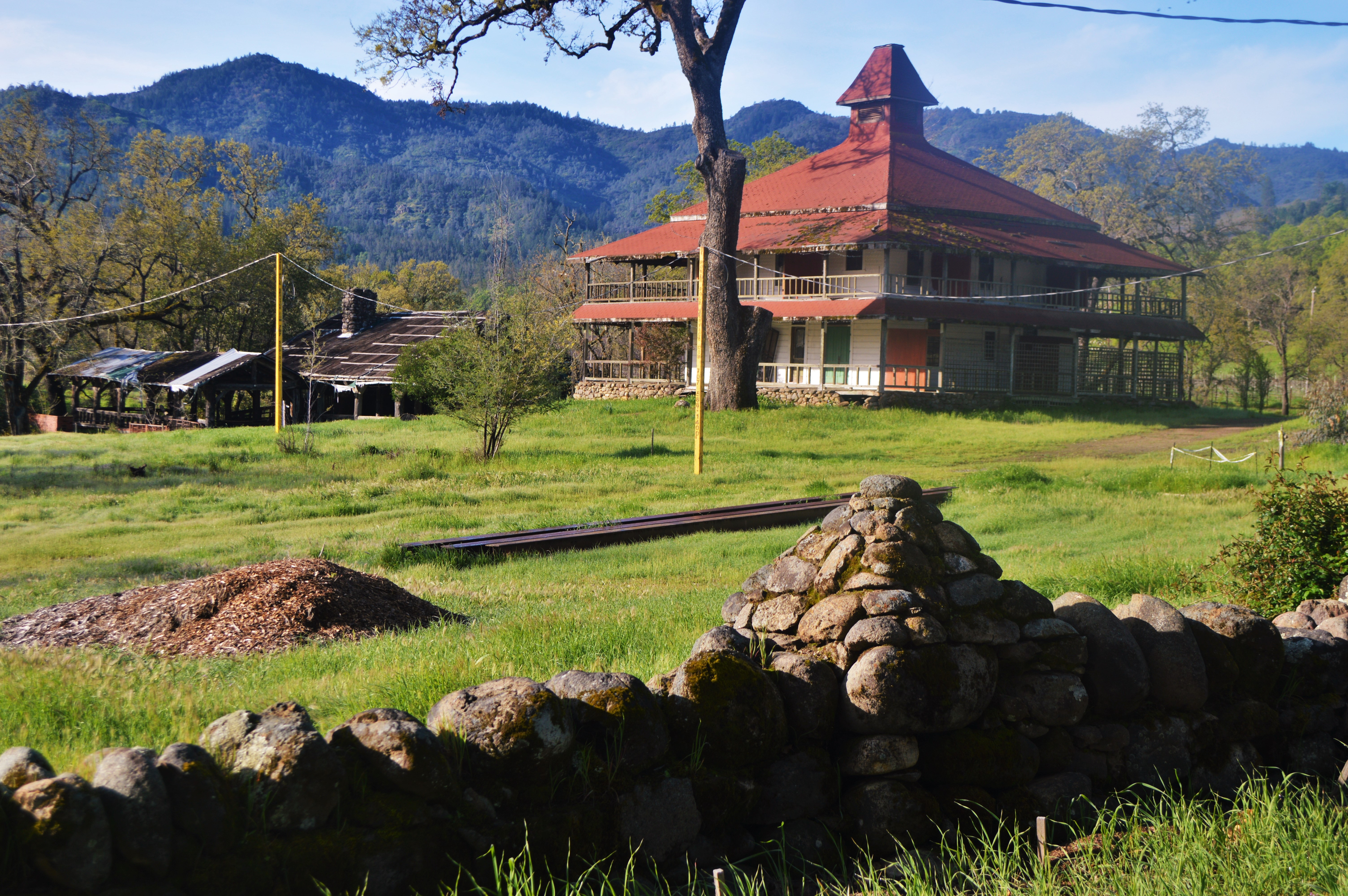 Aetna Springs Resort